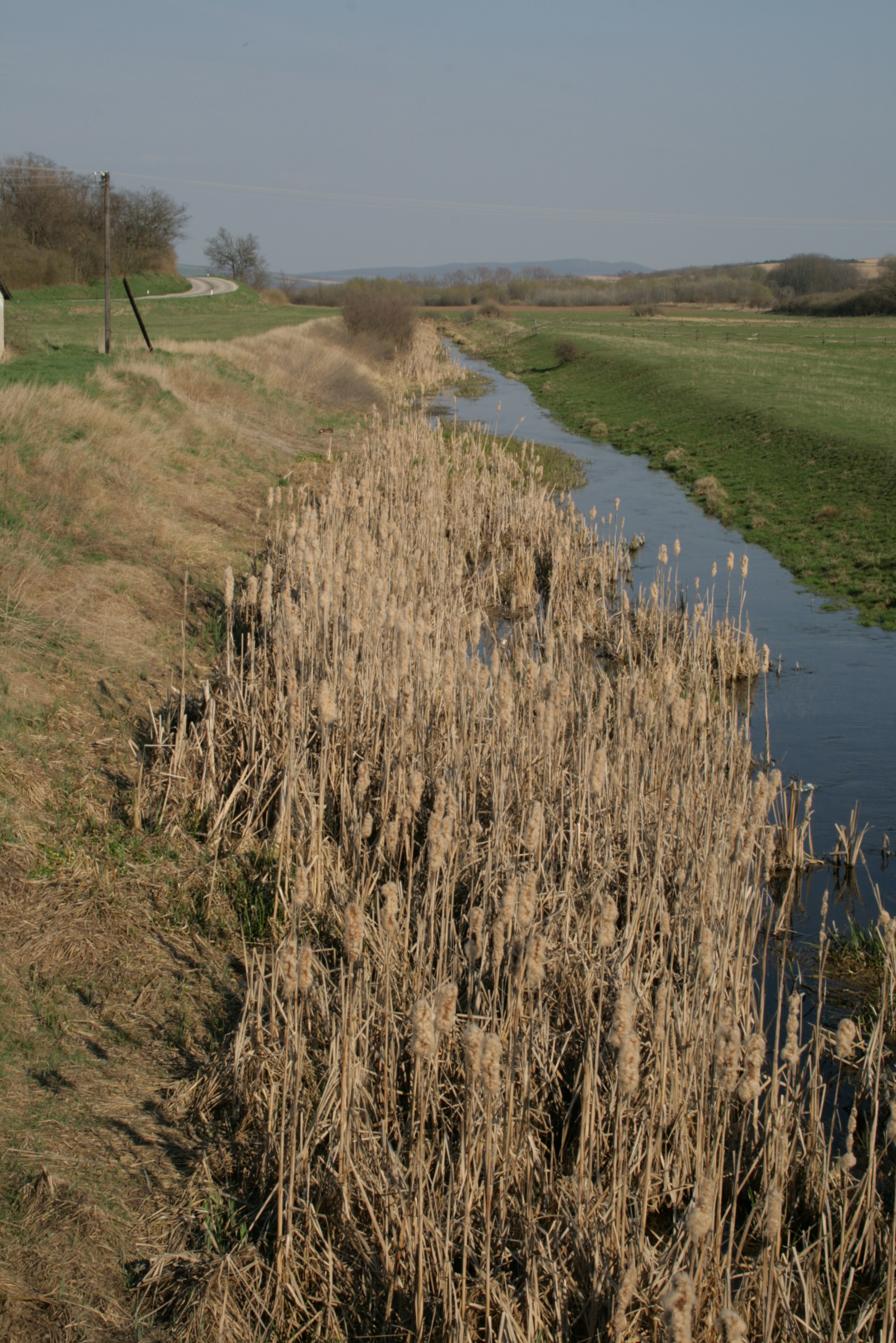 River Paríž near Diva (obec Šarkan, Nové Zámky district, Slovak republic).